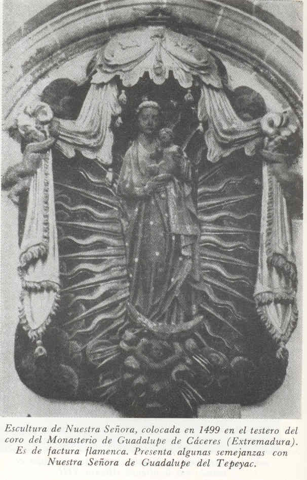 The Retablo image of Guadalupe in Caceres, allegedly bearing similar references to Guadalupe.